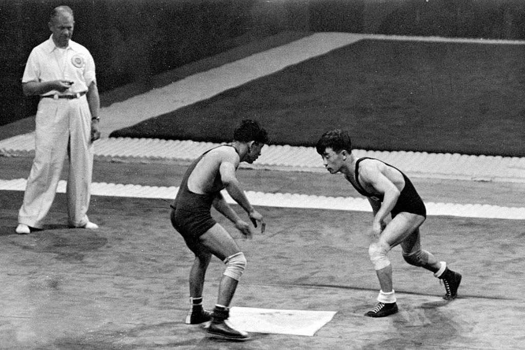 Yushu Kitano (R) of Japan and Mahmoud Mollaghasemi (L) of Iran compete in the Wrestling Freestyle Flyweight during the Helsinki Summer Olympic Games at the Messuhalli on July 23, 1952 in Helsinki, Finland